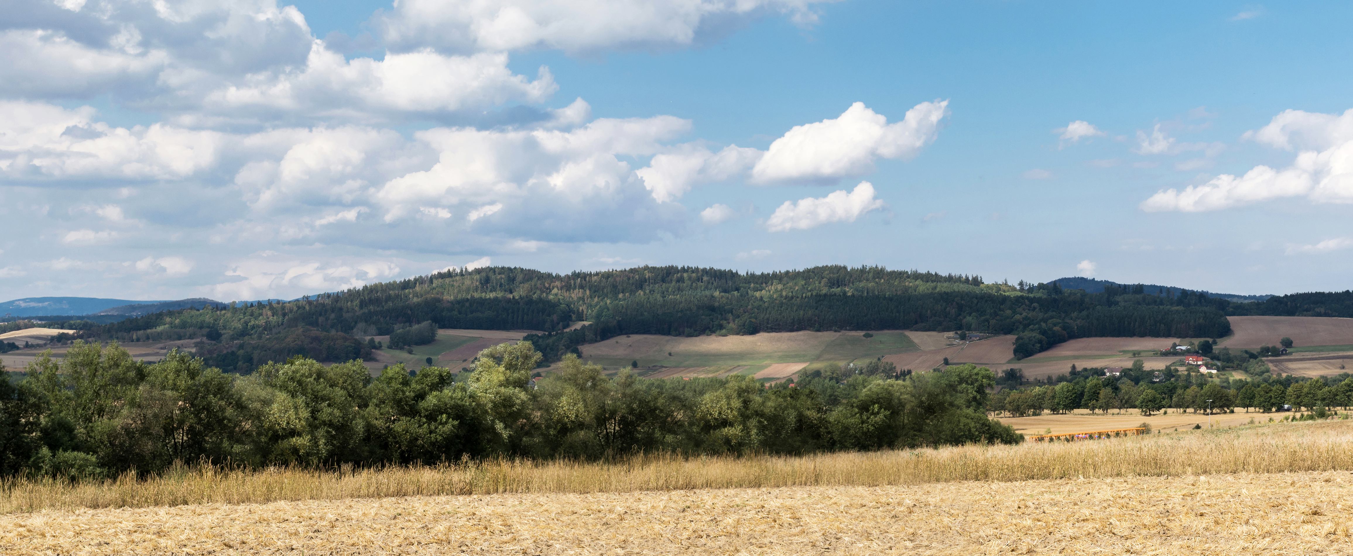 Goliniec Ridge, Bardzkie Mountains, Sudetes